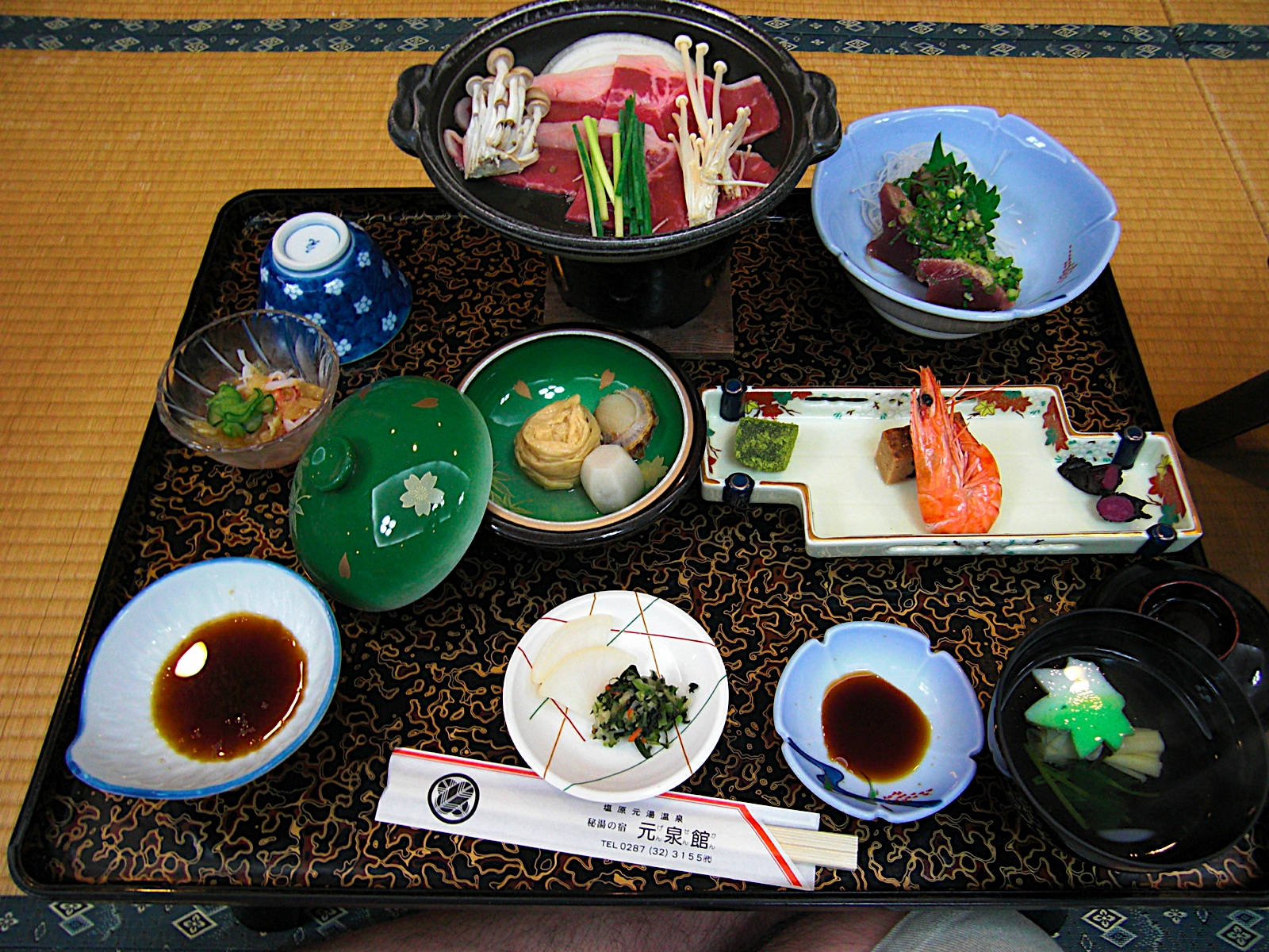 A dinner served at Gensenkan, one of the tourist inns of Shiobara-Motoyu Onsen.